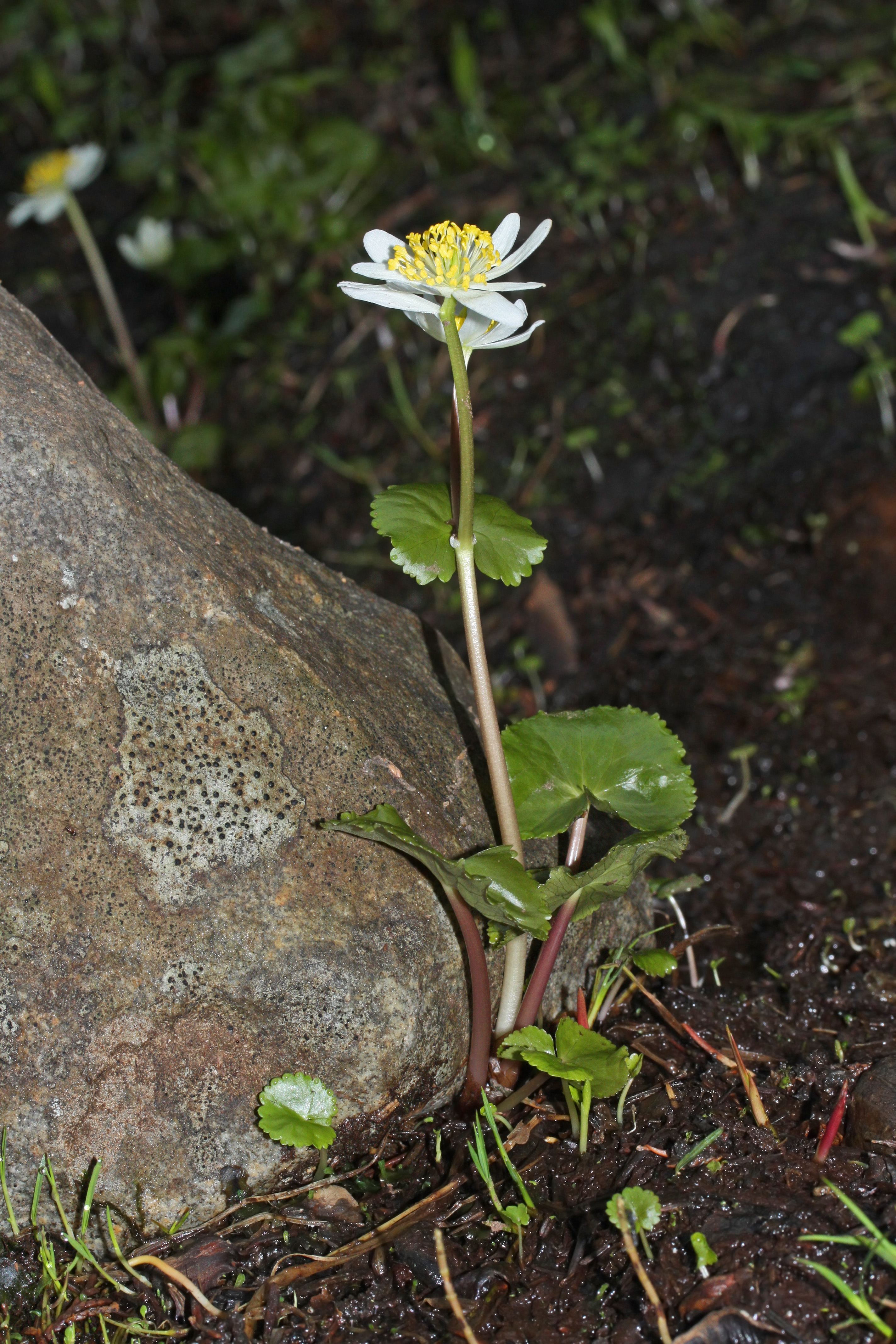 White Marshmarigold, Twinflowered Marshmarigold, Broadleaved Marshmarigold